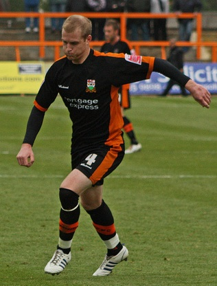 Neal Bishop of Barnet F.C.